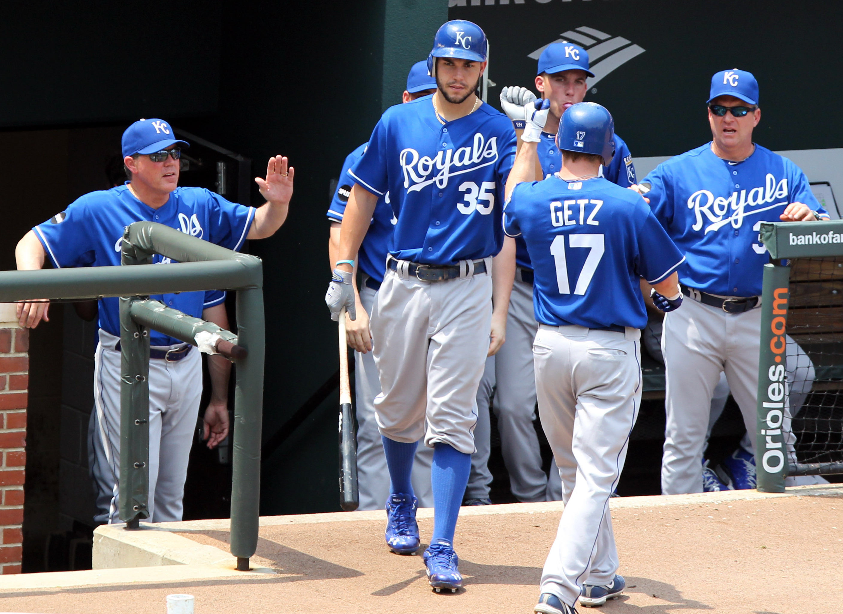 Kansas City Royals at Baltimore Orioles May 26, 2011